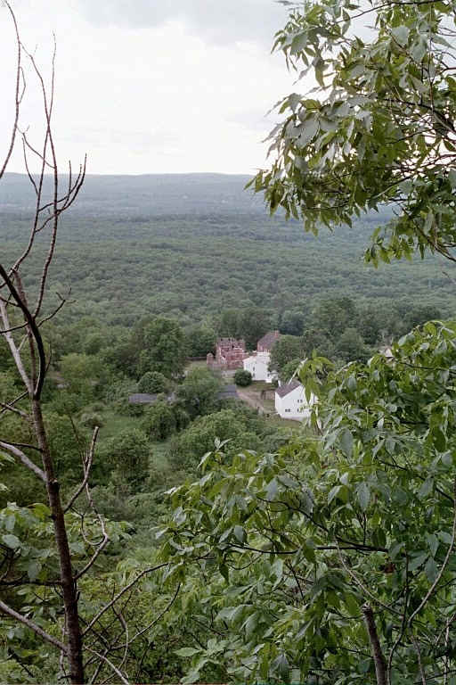 Old Newgate Prison as seen from Peak Mountain. by Paul Gagnon, 2003.